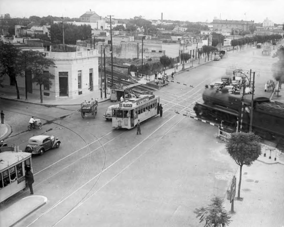 Level crossing on Santa Fe Avenue of Buenos Aires, near to Dorrego Avenue. The Ferrocarril Central Argentino (FCCA) tracks cross the street. The level crossing would be later replaced by a low level crossing (named "Viaduct Ministro Carranza" as well the train station built there).